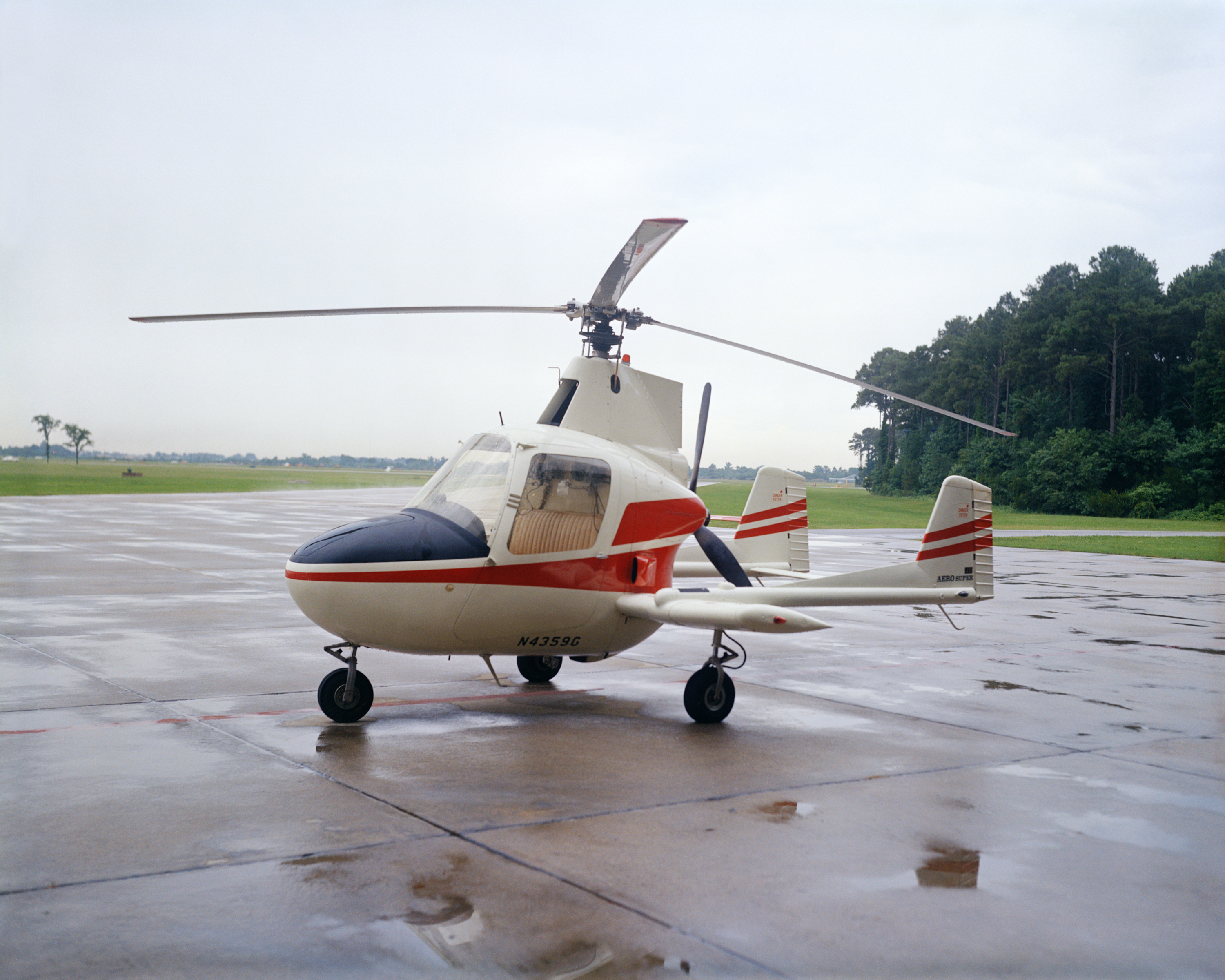 The McCulloch J-2 was a gyroplane tested by NASA pilot James Patton in the summer of 1973. The J-2 was a revival of a concept first tested by the NACA at Langley with the Pitcairn PCA-2 autogiro.